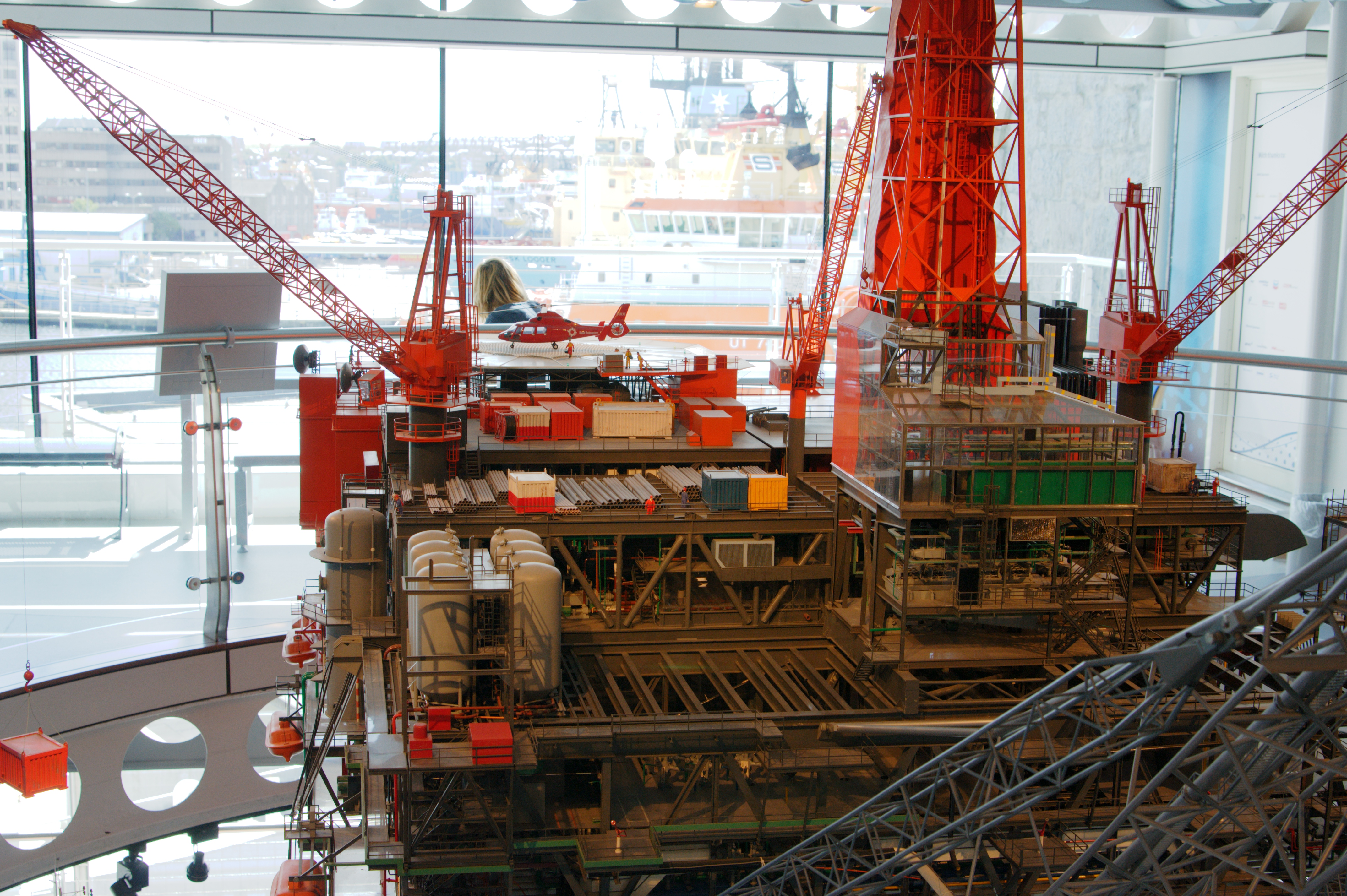 Aberdeen Maritime Museum, model of the Murchison Oil Platform